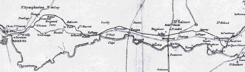 Map of Roanne and Andrézieux Railway before 1857. The line leading across Loire river on Roanne's Pont de Pierre (Stone Bridge), which was indended by the Compagnie du chemin de fer de la Loire but strictly prevented by the city coiuncil of Roanne, this map may be an exposé published by the company